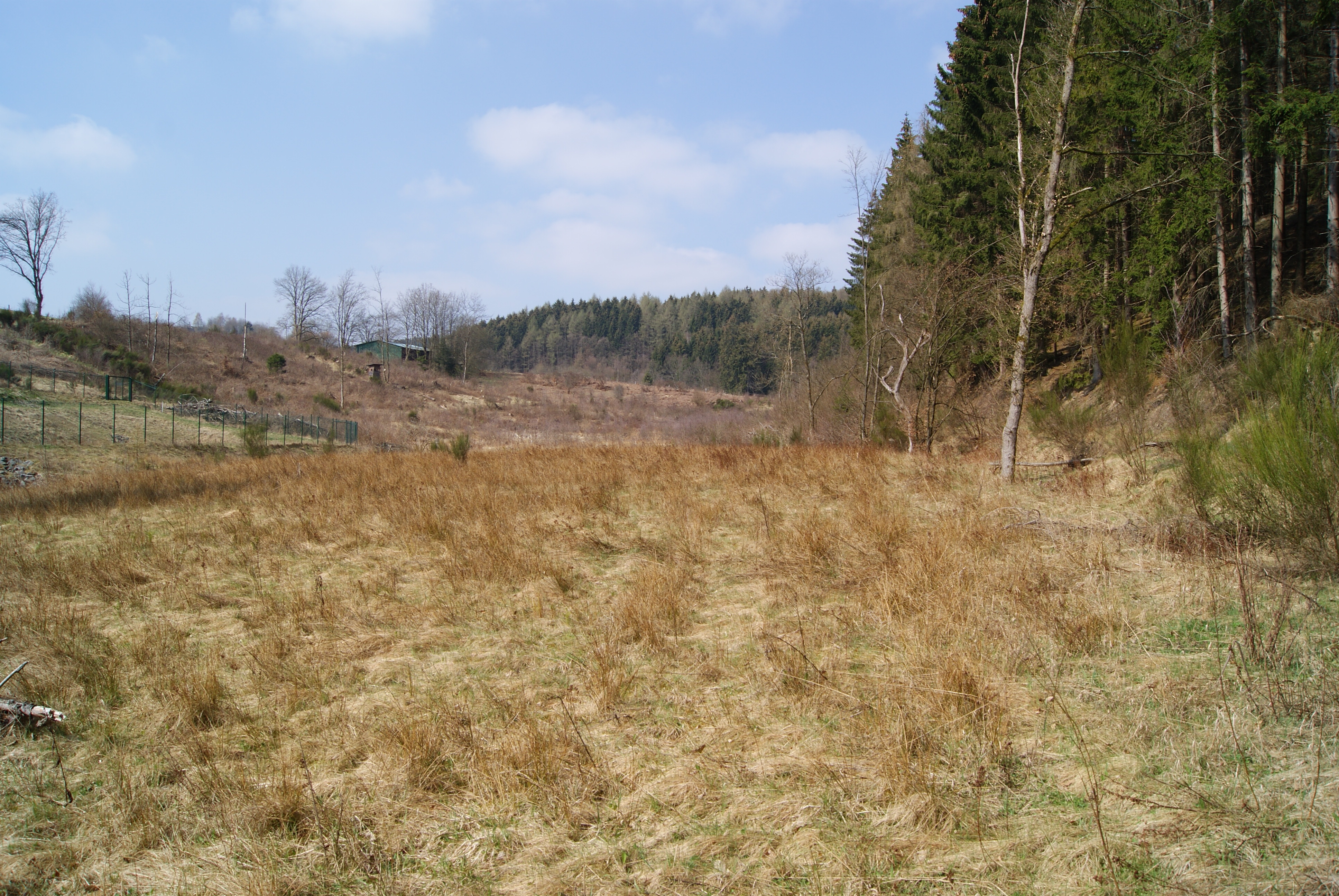 Plittersche nature reserve, 57258 Freudenberg, Germany; view to north.